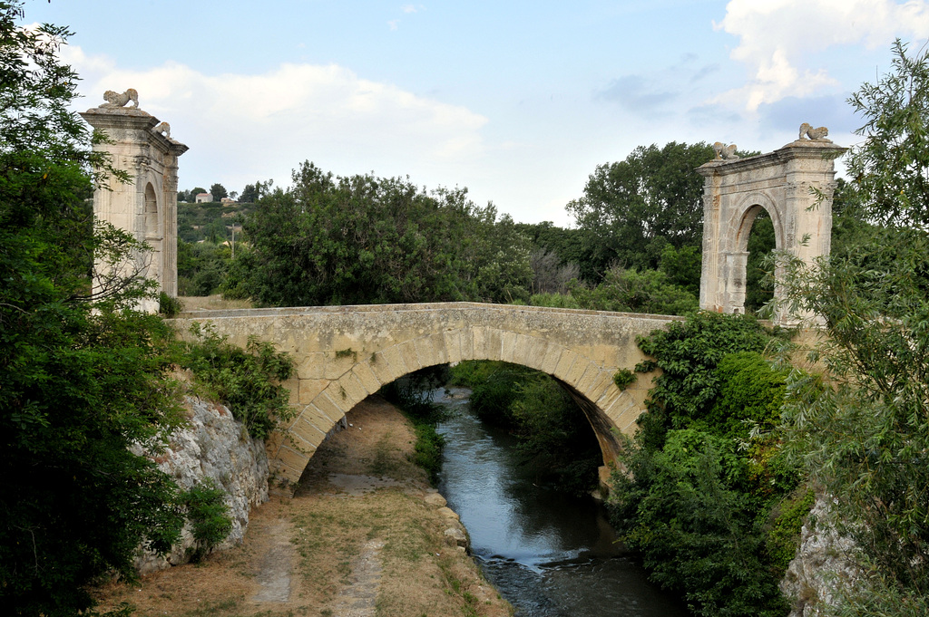 The Pont Flavien is a Roman bridge in Saint-Chamas, Bouches-du-Rhône department, Provence-Alpes-Côte d'Azur, France.